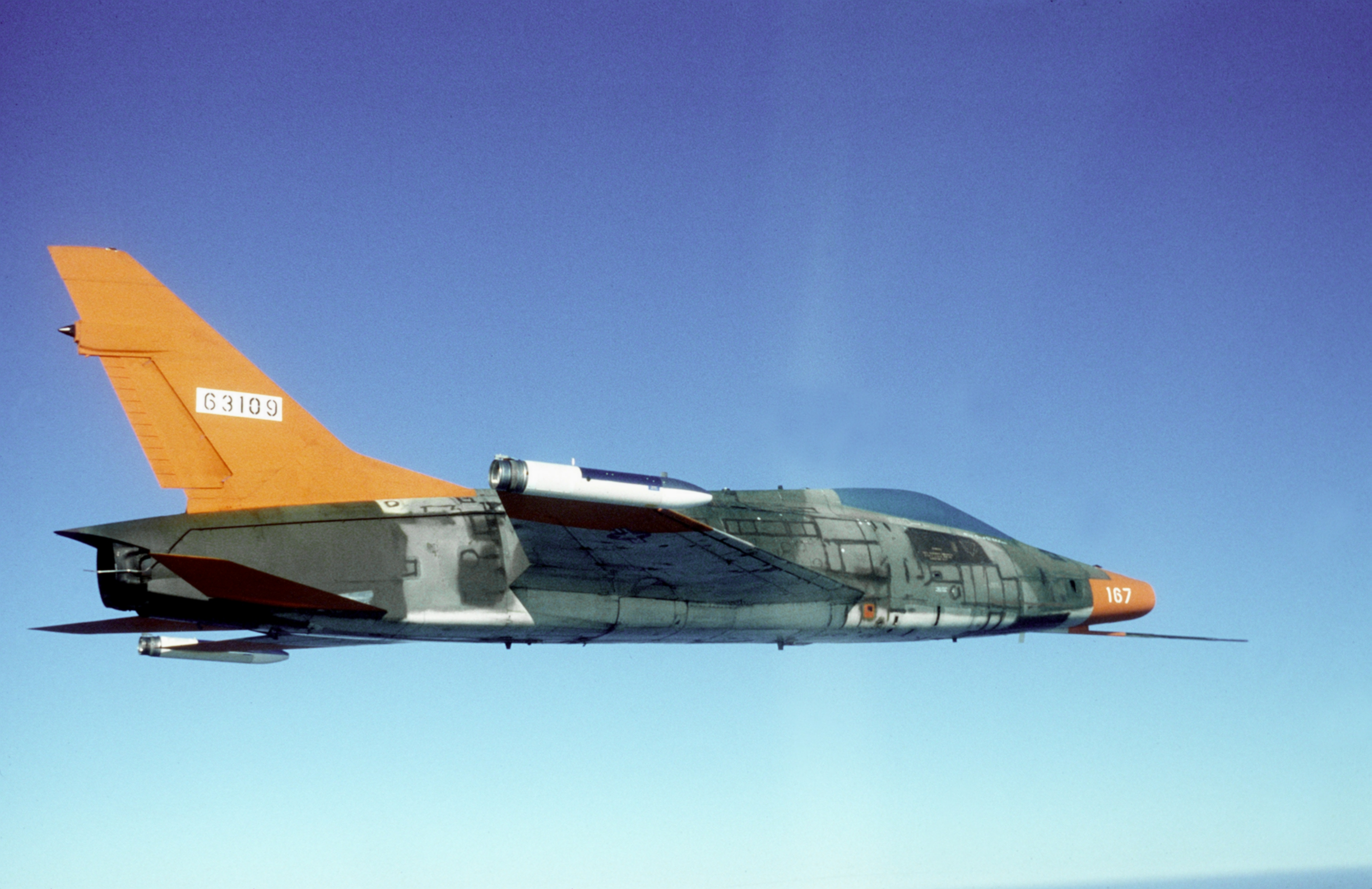 A U.S. Air Force North American QF-100D Super Sabre target drone (s/n 56-3109) being used during exercise "William Tell '86" at Tyndall Air Force Base, Florida (USA) on 26 September 1986.